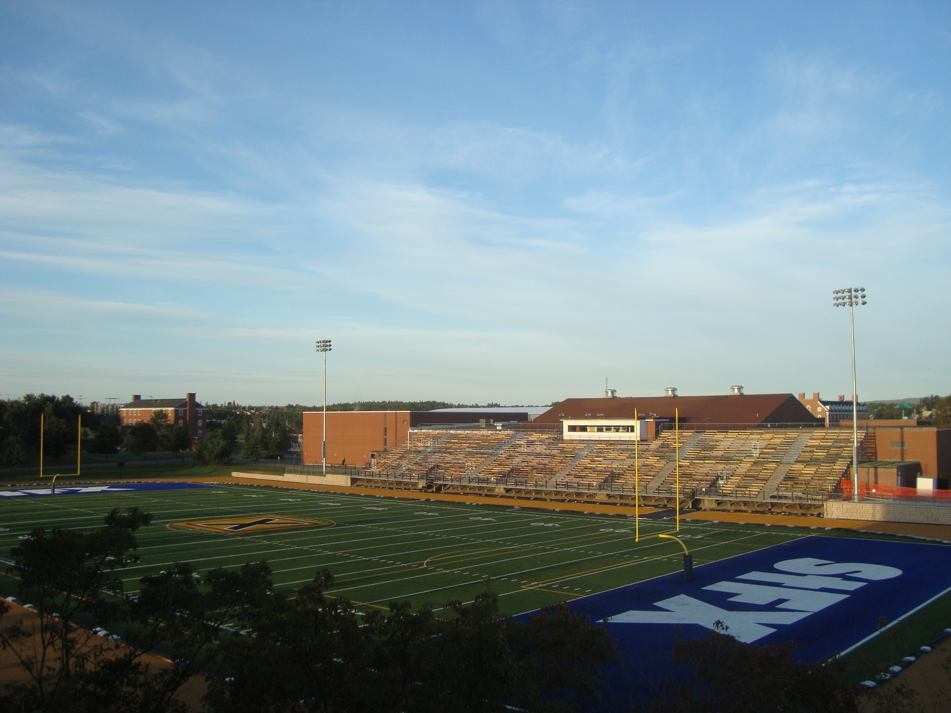 St.F.X. Football Field